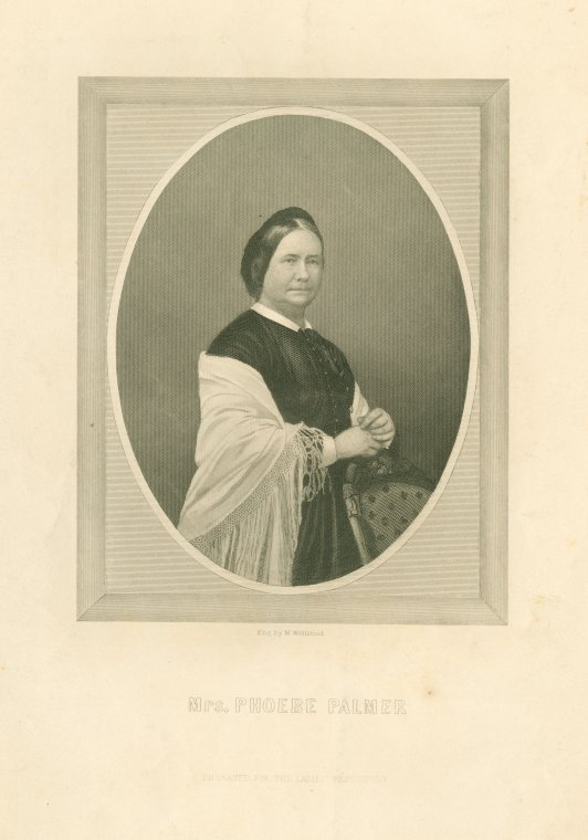 Phoebe Worrall Palmer (died 1874)